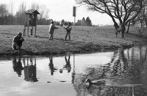 Local paper #09: Local recreation area